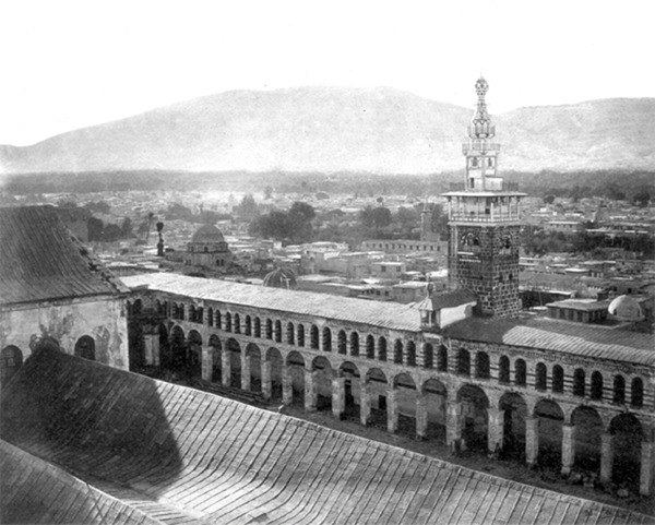 Umayyad Mosque, Mount Qasion, Damascus Syria, by Francis Bedford 1862